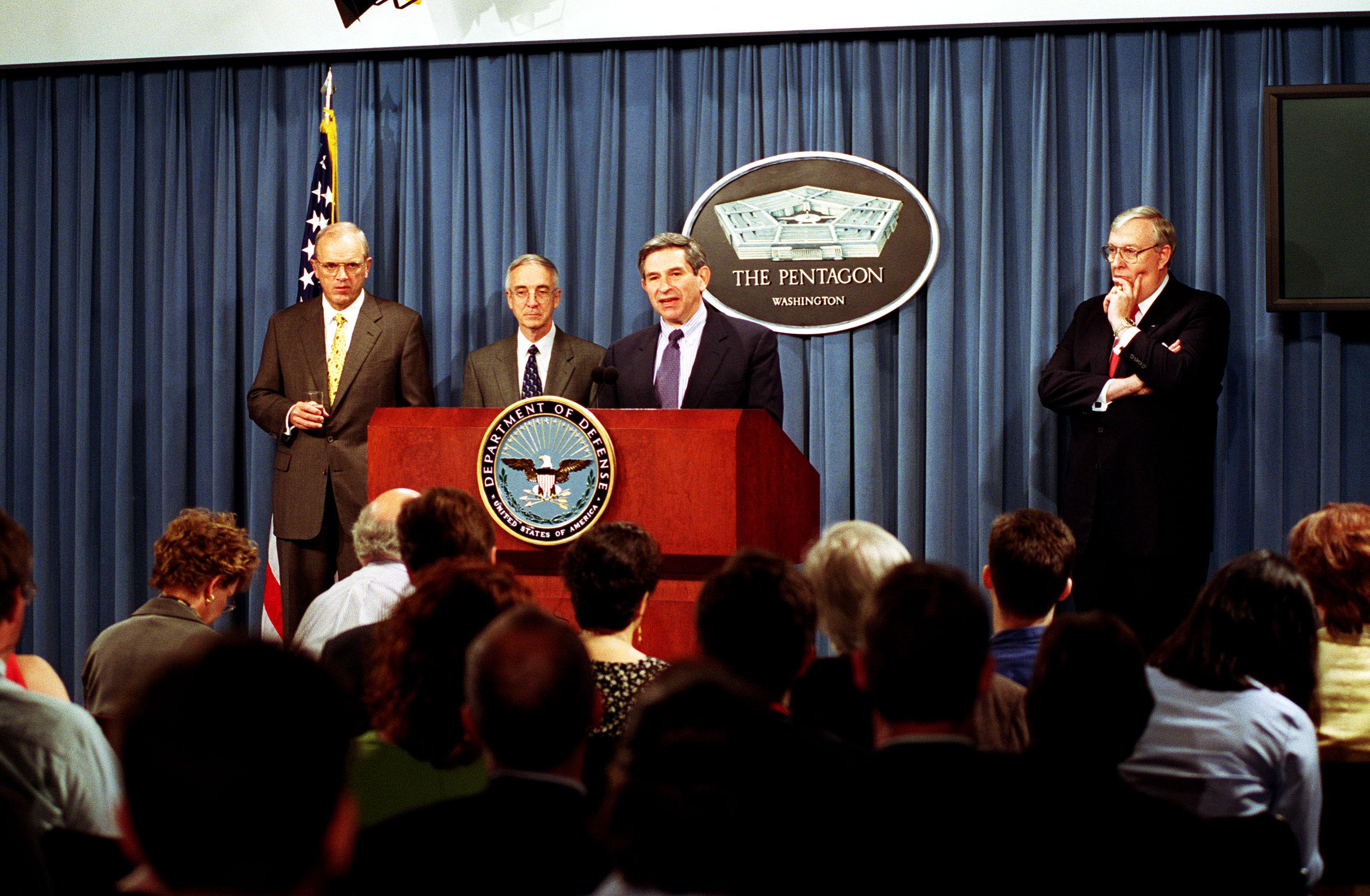 Deputy Secretary of Defense Paul Wolfowitz (center) introduces the service secretaries and describes their role in the management of the Department of Defense during a Pentagon press briefing. From left to right are Secretary of the Army Thomas E. White, Secretary of the Navy Gordon England, Wolfowitz, and Secretary of the Air Force James Roche.